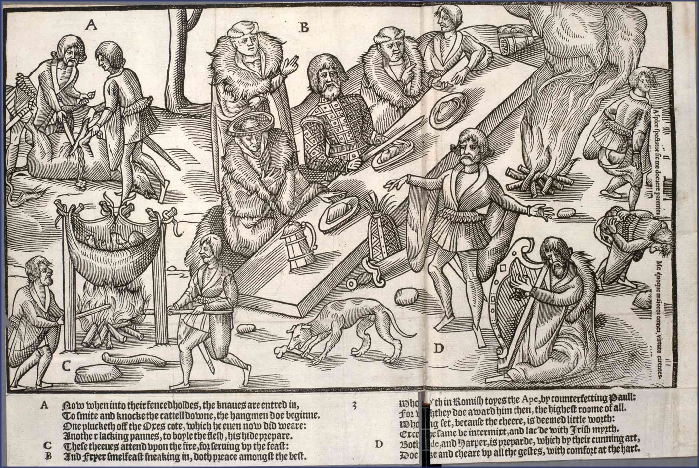 A plate originally from The Image of Irelande, by John Derrick, published in 1581. This image was taken from this Edinburgh University Library website - [1], with the description - "The most famous plate of the set shows the chief of the Mac Sweynes seated at dinner and being entertained by a bard and a harper".